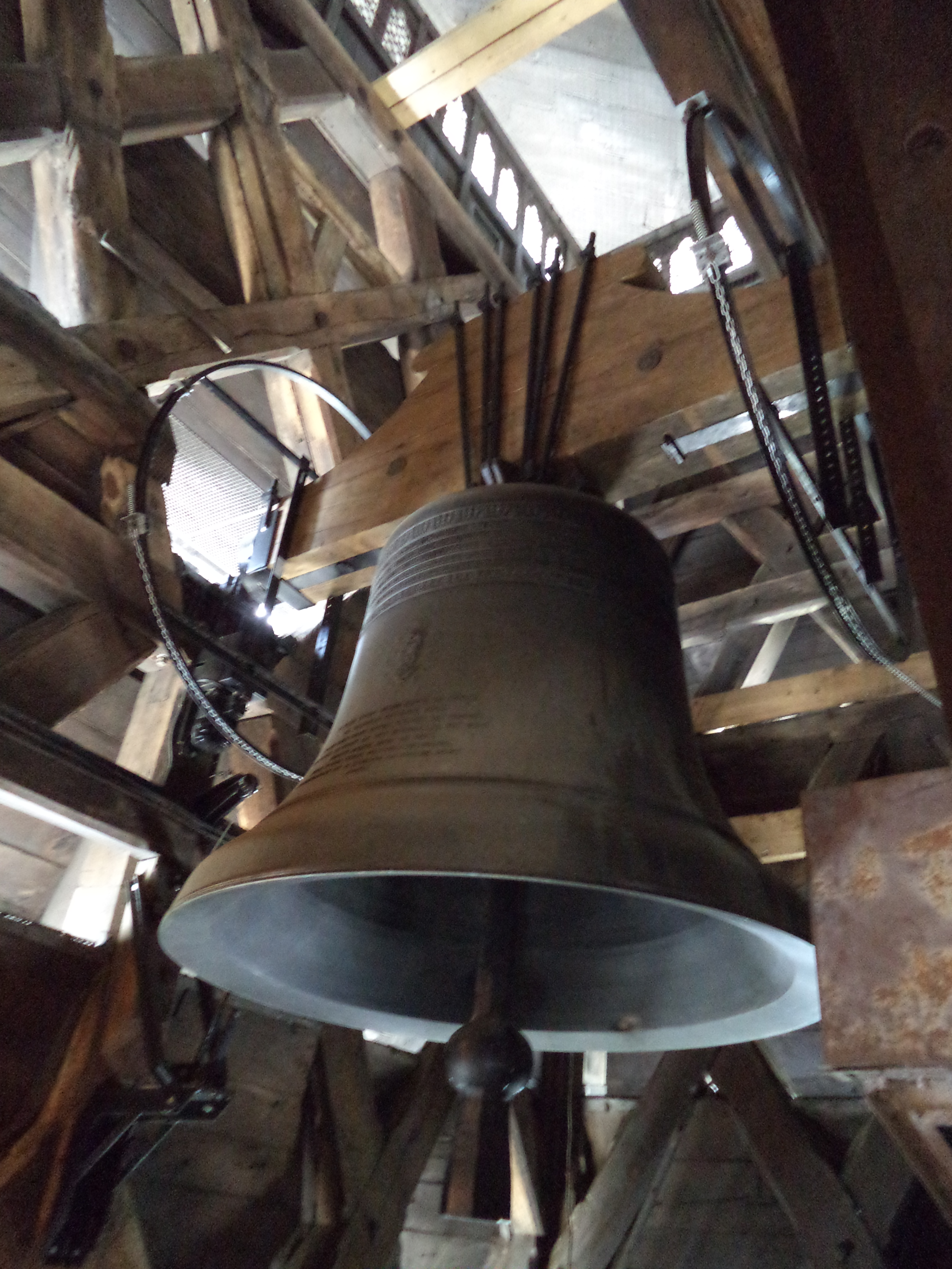 Bourdon Marie in the South tower of Notre-Dame Cathedral, Paris